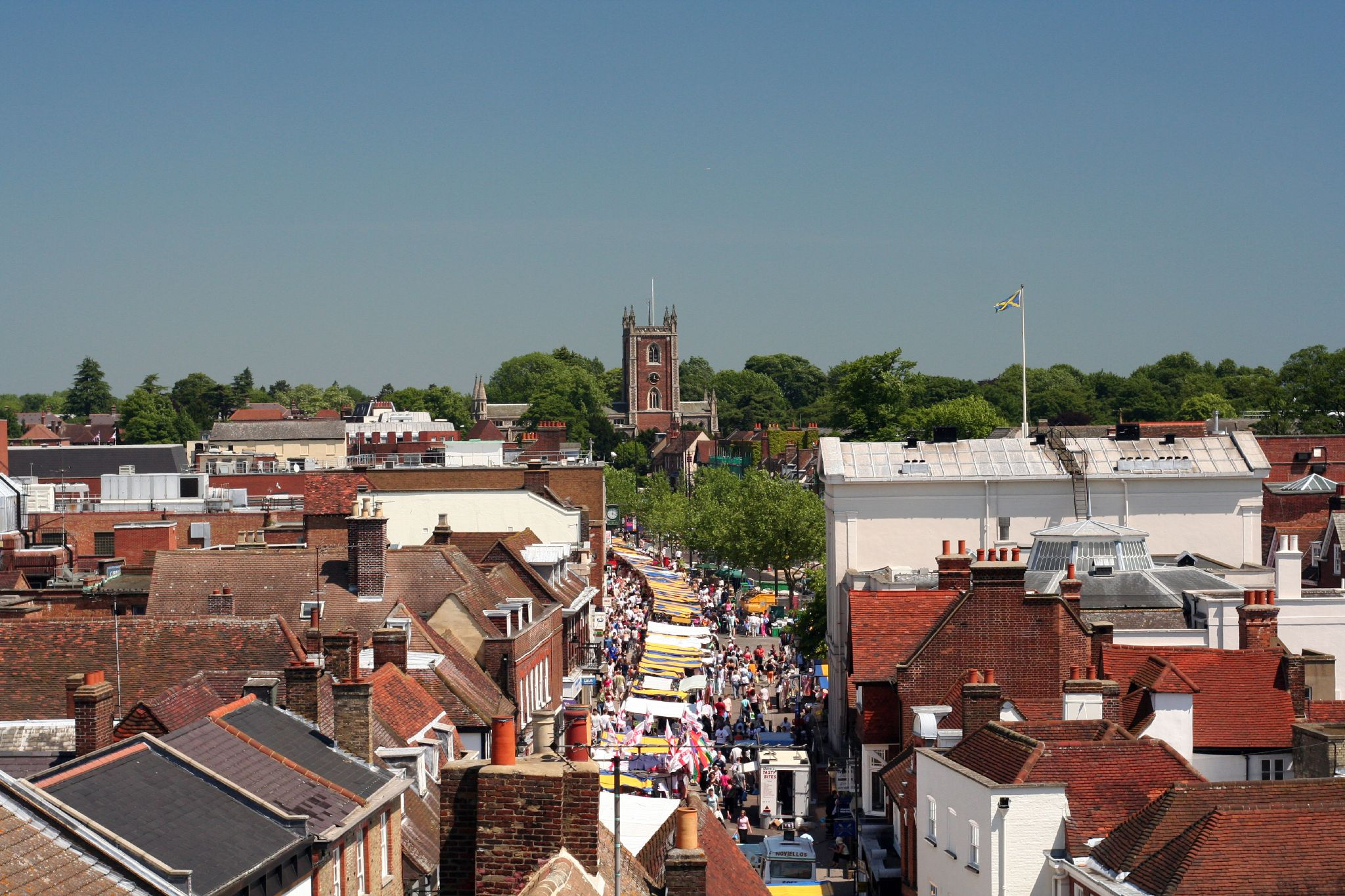 St Albans Market from the Clock Tower.